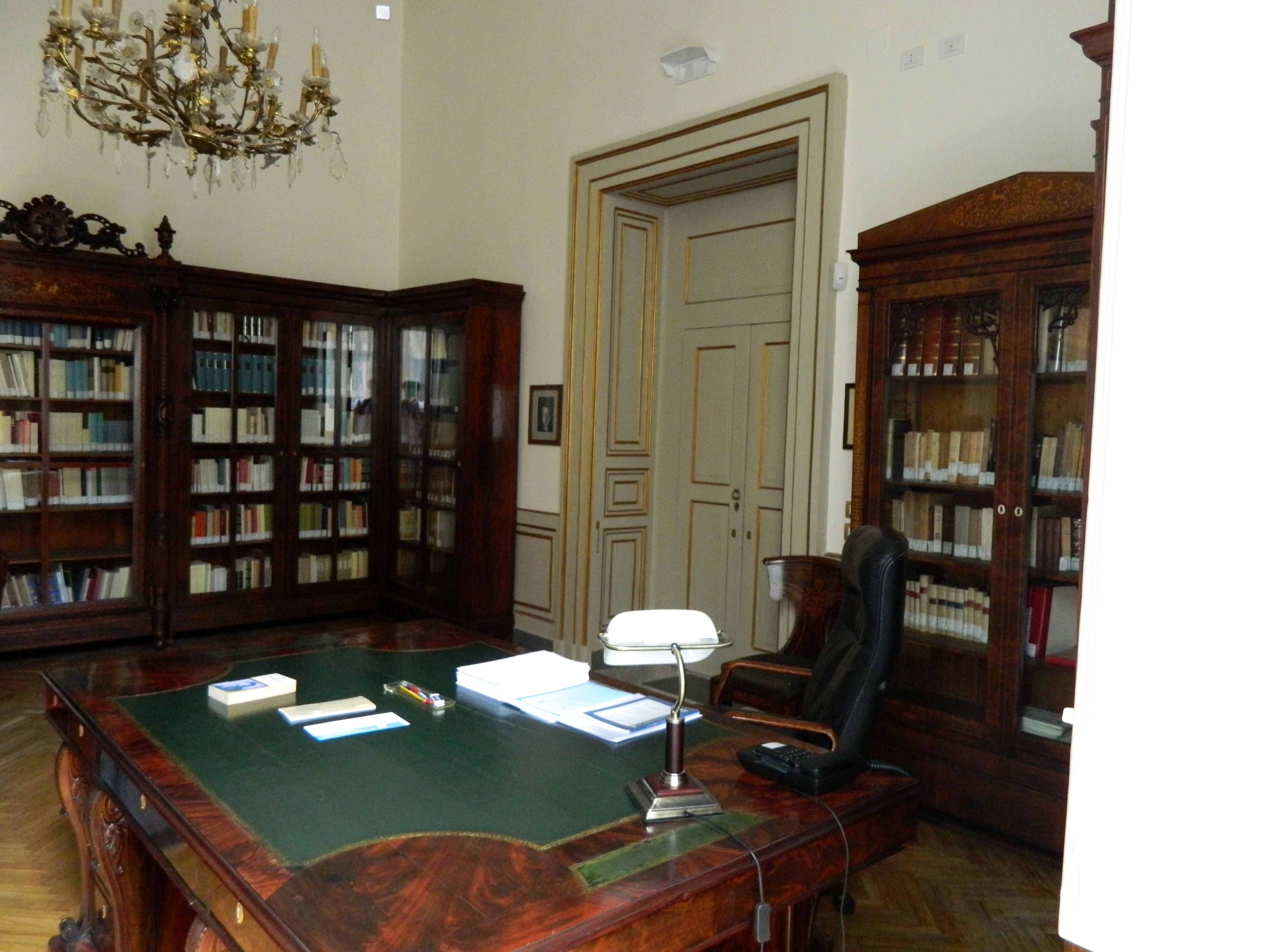 Palazzo Filomarino (Napoli) - Una sala dell'appartamento di Benedetto Croce